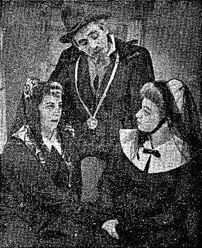 From "Maase behayat", Ohel theatre, 1947.